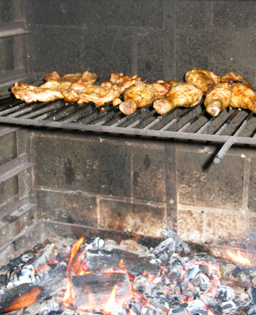 Chicken being cooked by the method of roasting.